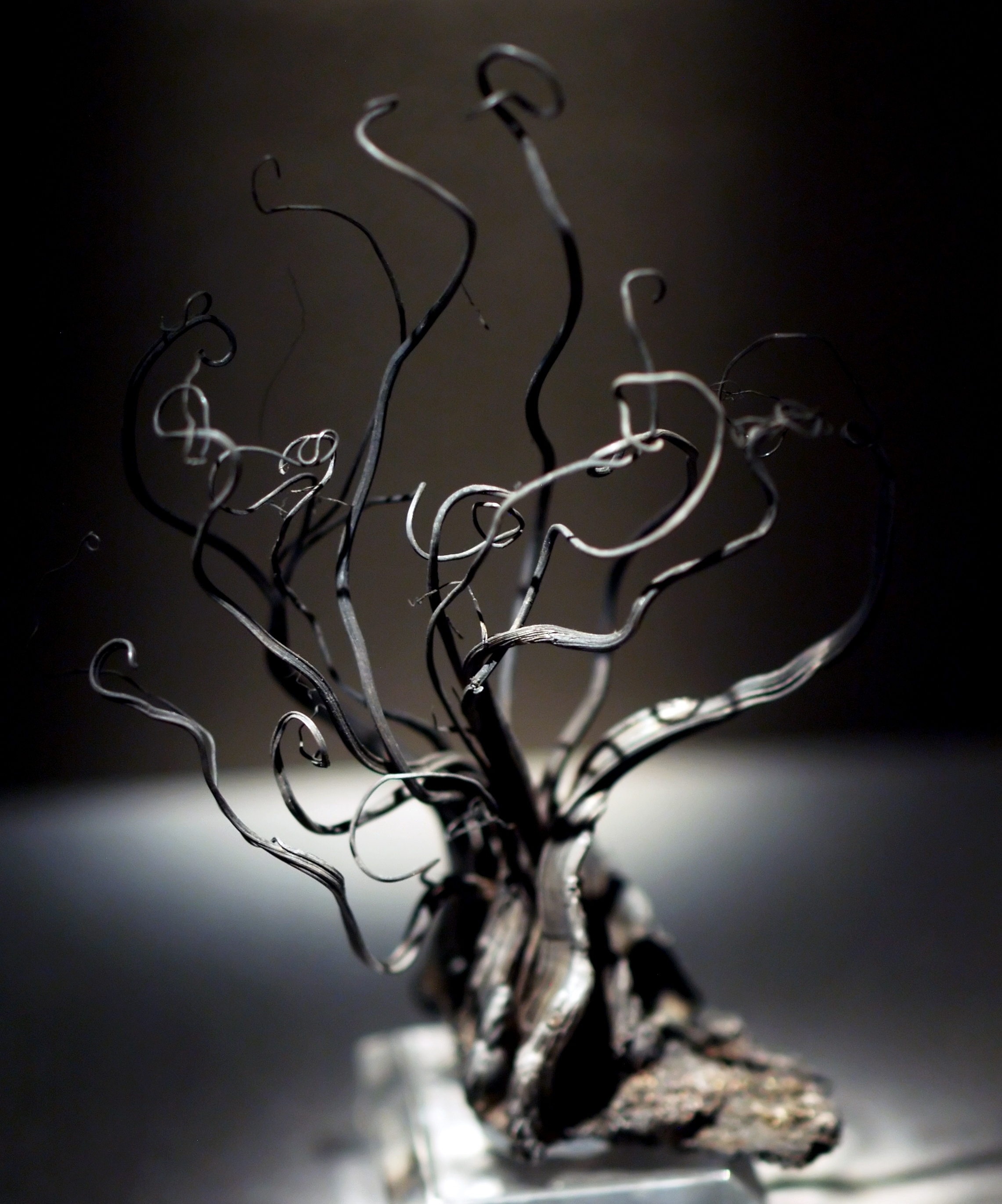 Silver Isometric native element Freiberg District, Erzgebirge Saxony, Germany Wikipedia Loves Art at the Houston Museum of Natural Science This photo of item # [1] at the Houston Museum of Natural Science was contributed under the team name "Assignment_Houston_One" as part of the Wikipedia Loves Art project in February 2009. Houston Museum of Natural Science The original photograph on Flickr was taken by sulla55—please add a comment to the original Flickr page whenever a use has been made on Wikipedia or another project. Project galleries on Flickr: this institution, this team